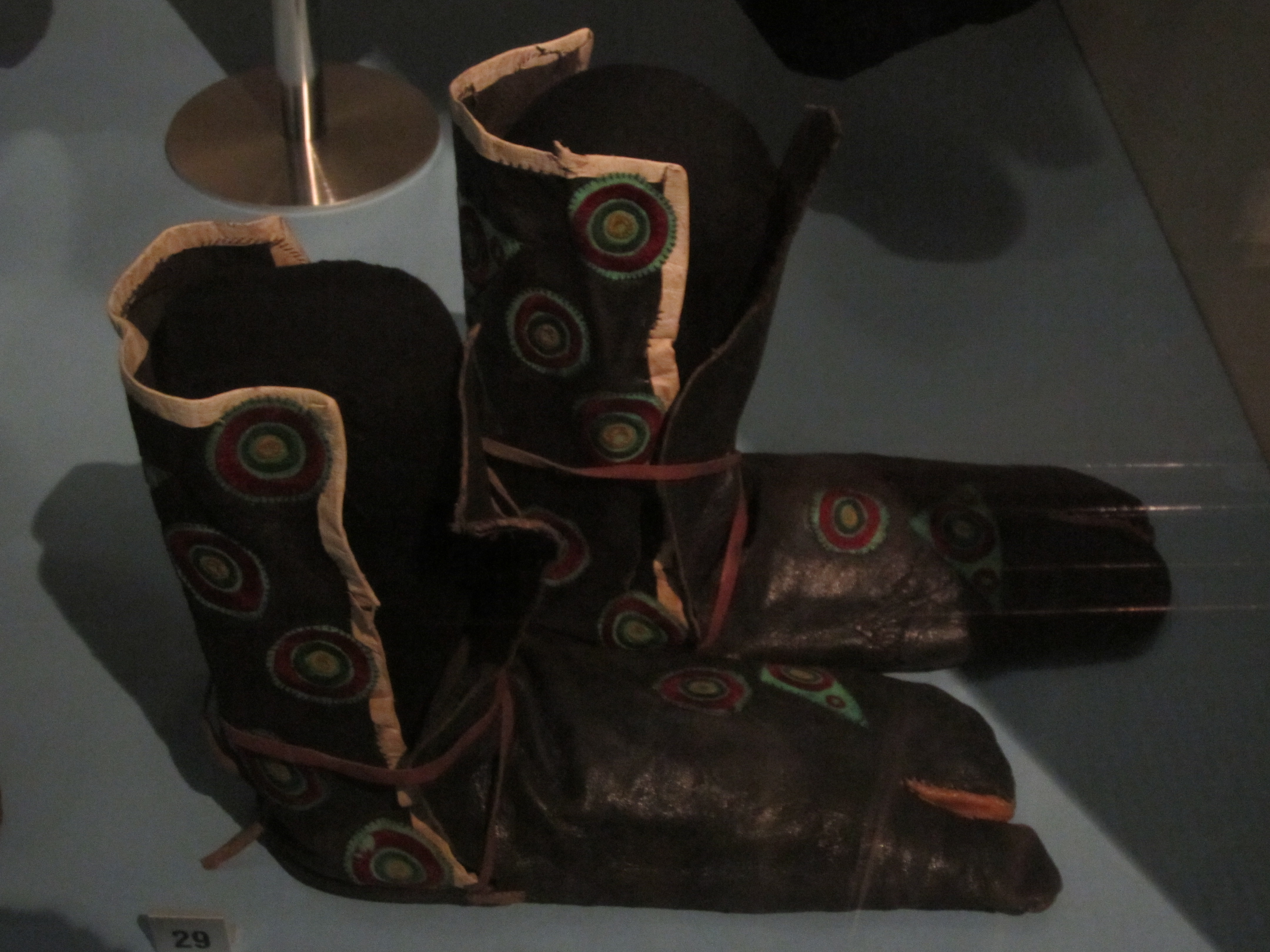 Photo taken at the World Museum Liverpool, England.